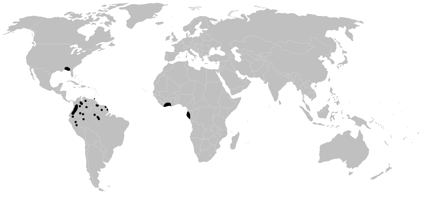 World distribution of harvestman family Neogoveidae, after Pinto-da-Rocha et al. 2007: 79 and Benavides & Giribet 2007: 3 (for South America)